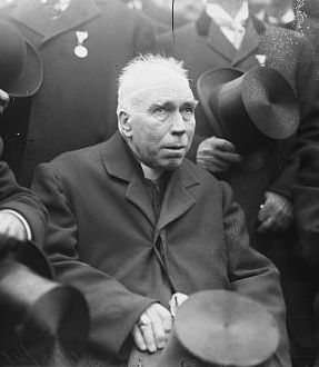 Michael Cardinal Logue (1840 - 1924), Irish prelate, Archbishop of Armagh and Primate of All Ireland (1887-1924), cardinal (1893-1924)